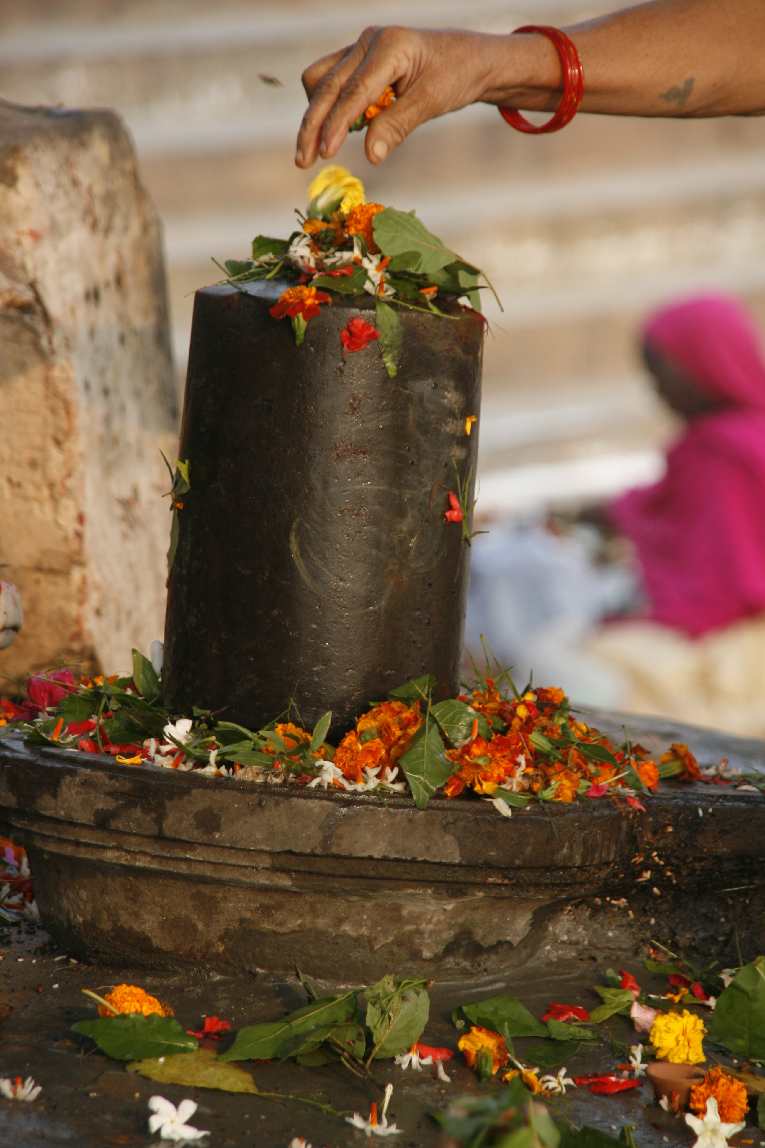 a Hindu sculpture of Aikya Linga in varanasi